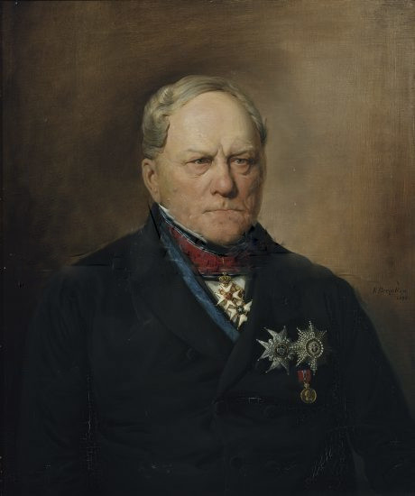 Severin Lovenskiold was Prime Minister of Norway from 1828 to 1841.